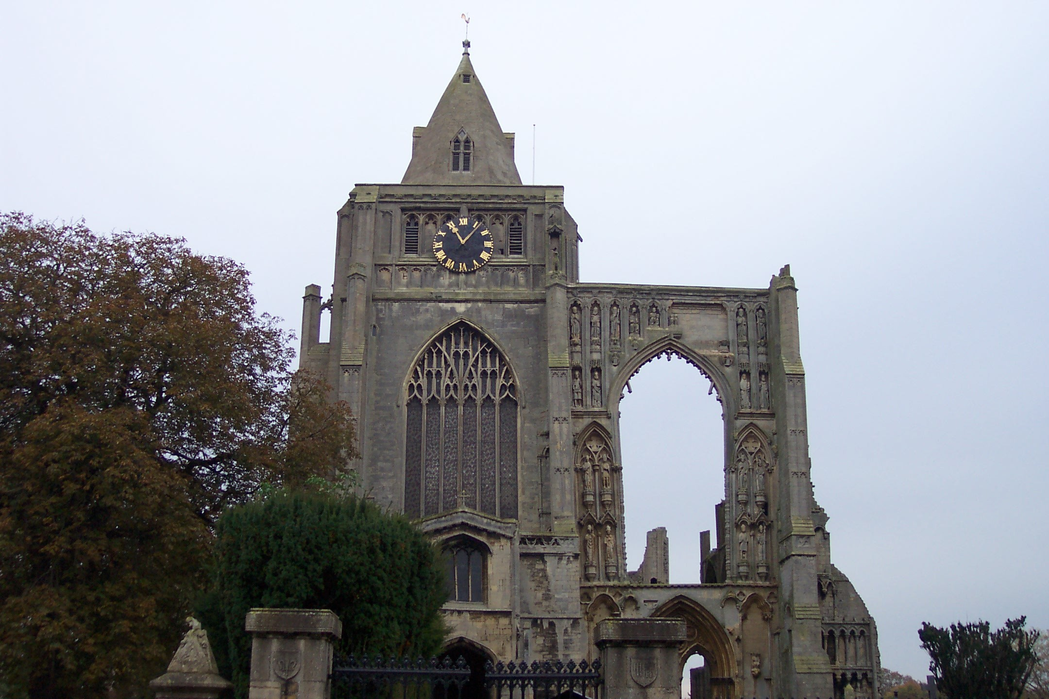 crowland abbey, nr Peterborough, UK. Source URL